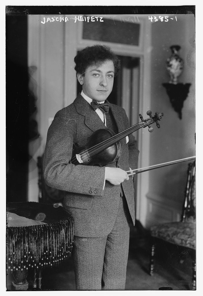 Bain News Service,, publisher. Jascha Heifetz [between ca. 1915 and ca. 1920] 1 negative : glass ; 5 x 7 in. or smaller. Notes: Title from unverified data provided by the Bain News Service on the negatives or caption cards. Forms part of: George Grantham Bain Collection (Library of Congress). Subjects: Heifetz, Jascha,--1901-1987. Format: Glass negatives. Repository: Library of Congress, Prints and Photographs Division, Washington, D.C. 20540 USA, General information about the Bain Collection is available at Higher resolution image is available (Persistent URL): Call Number: LC-B2- 4385-1